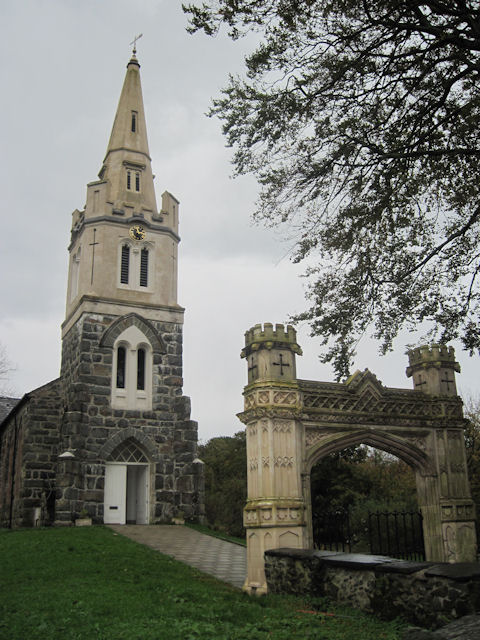 Tremadog Church